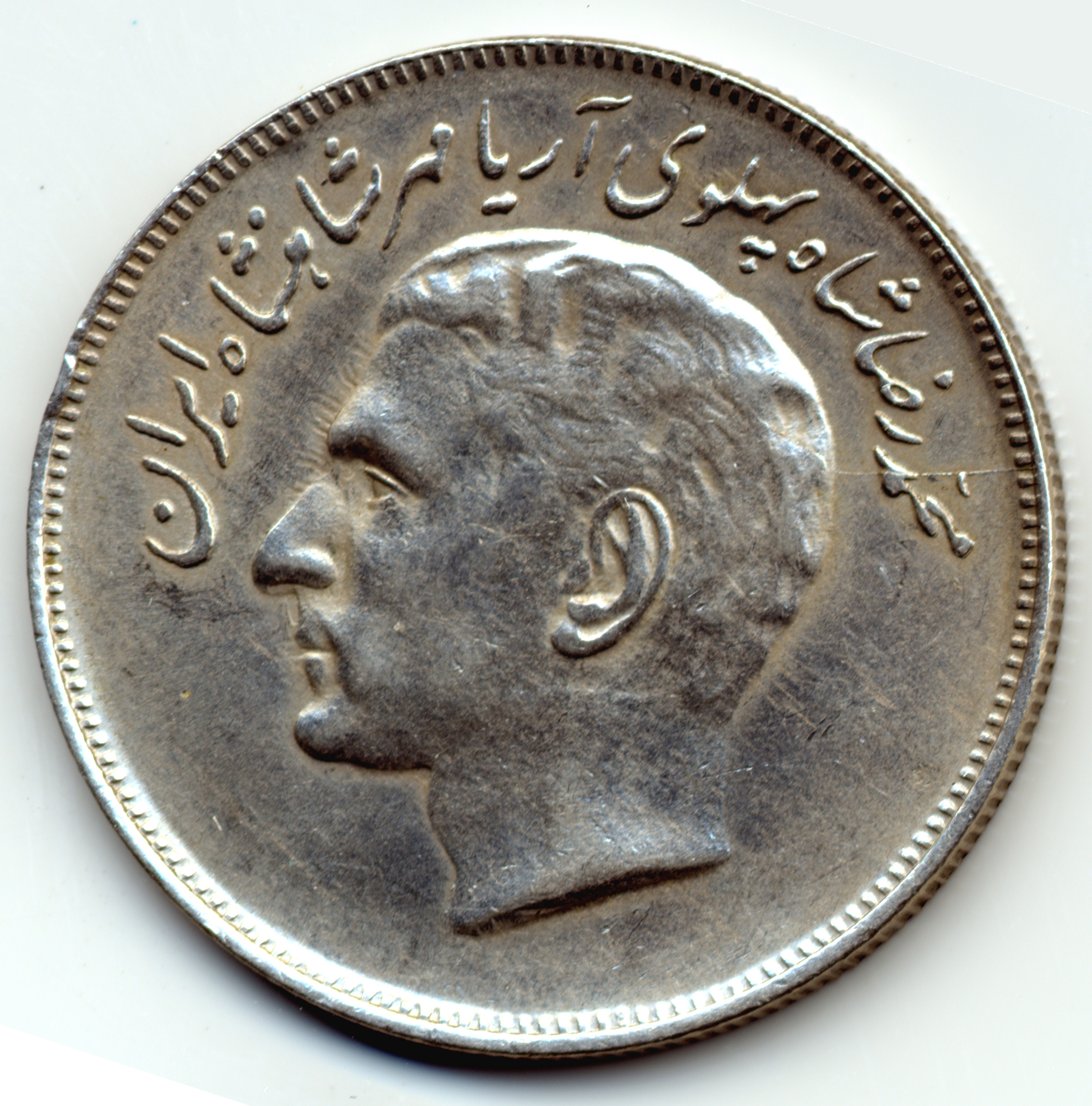 Obverse of Iranian 20 Rials coin - monument of 1974 Asian Games